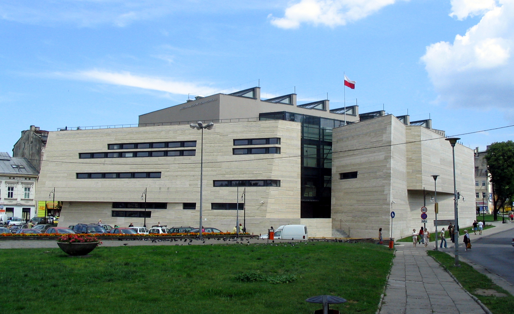 The National Museum Branch in Przemyśl